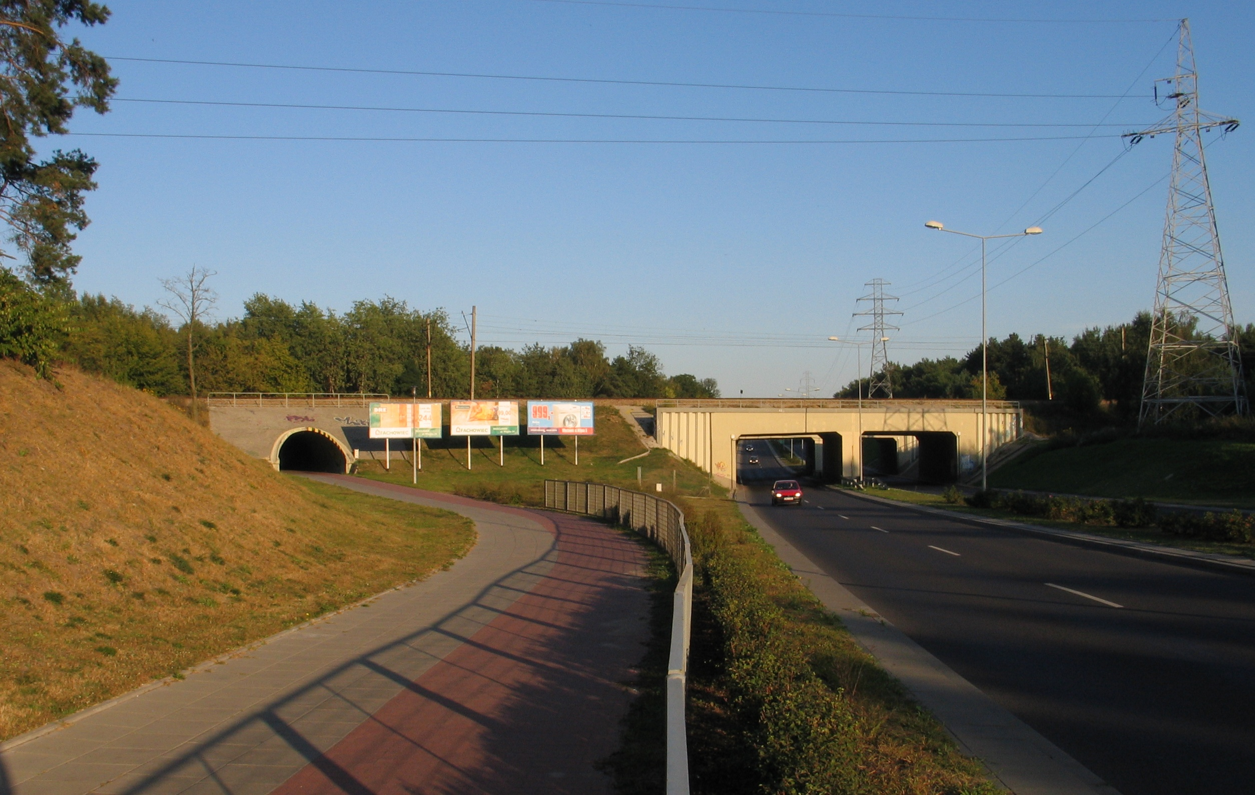 Al. Królowej Jadwigi flyover